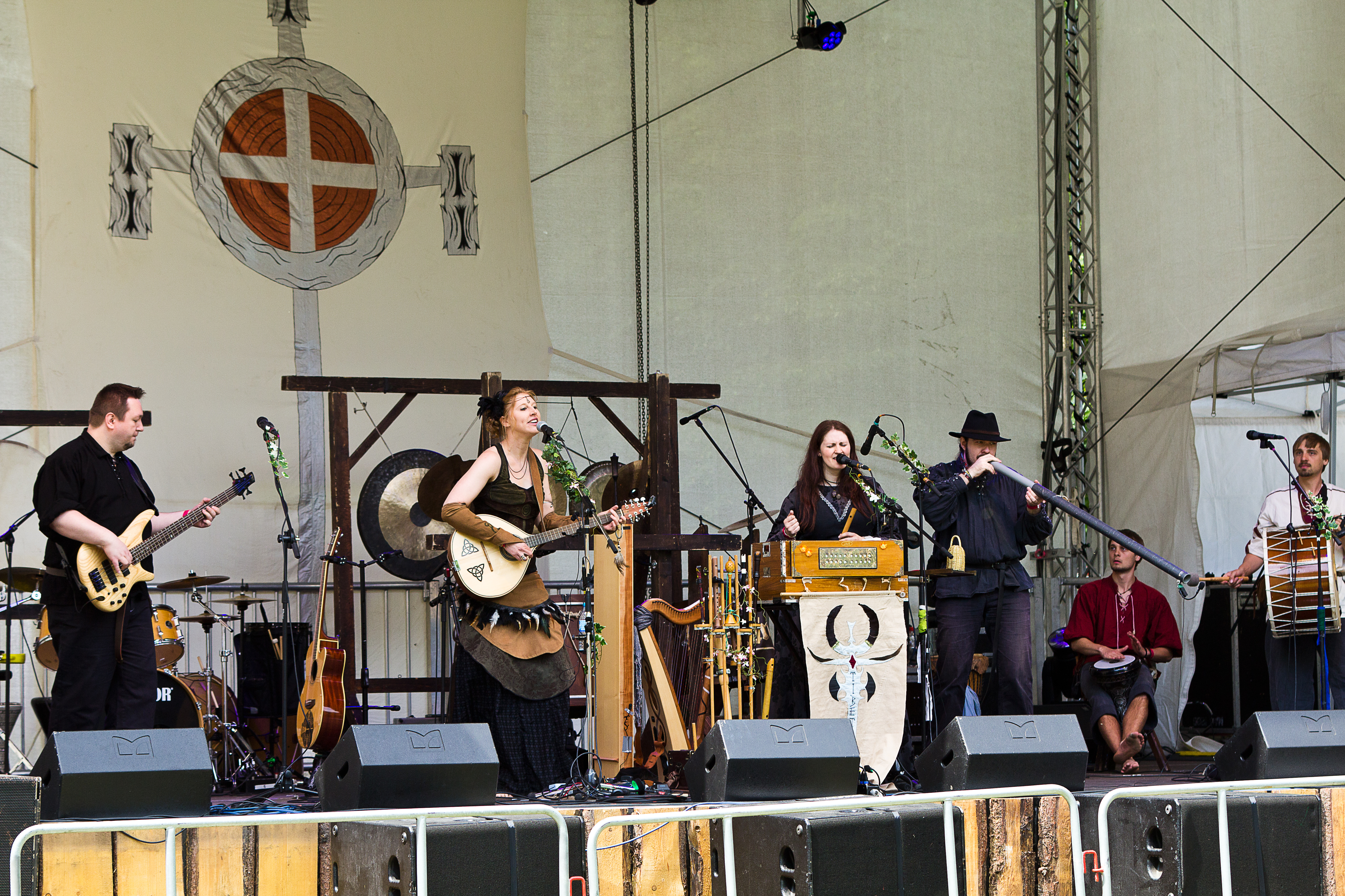 The German medieval folk band Tibetréa at the Wave-Gotik-Treffen 2015 in Leipzig/Germany